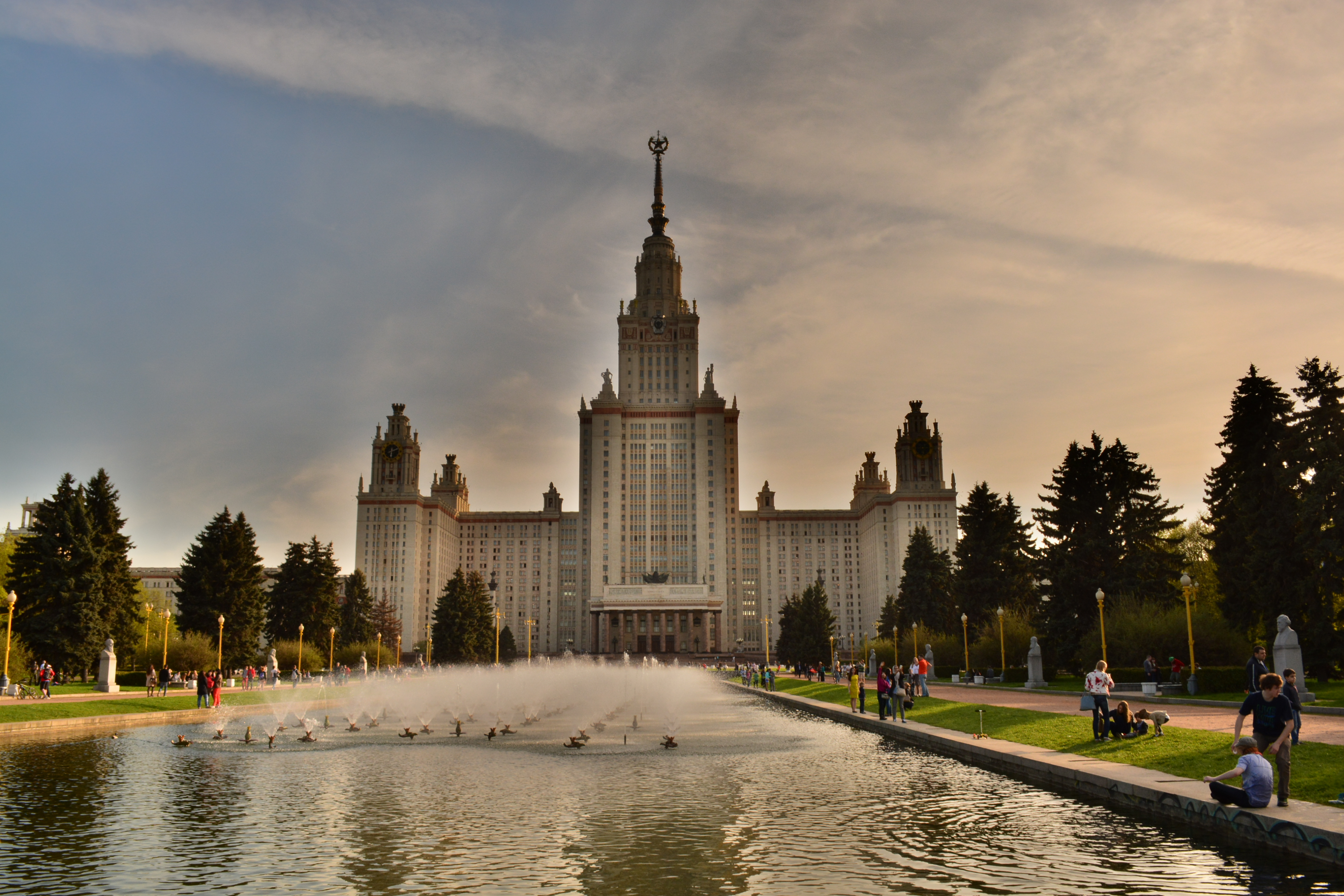 Lomonosov Moscow State University (MSU